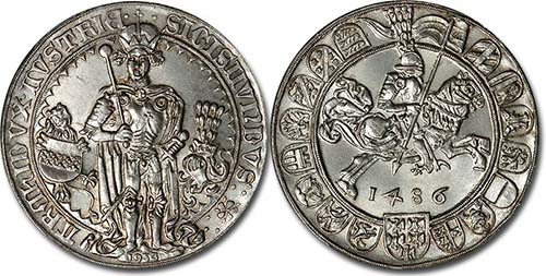 A photograph of a 1953 official Hall-in-Tirol mint restrike of Sigismund's 1486 guldengroschen (guldiner). The photo was taken by me and the coin is in my personal collection.